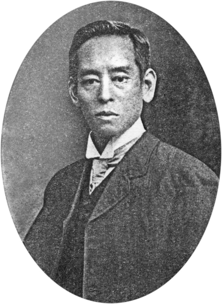 Self portrait of T Enami, circa 1909